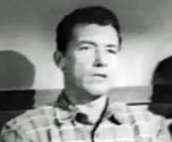 Jim Bannon in trailer for "Stagecoach Driver" (1951)